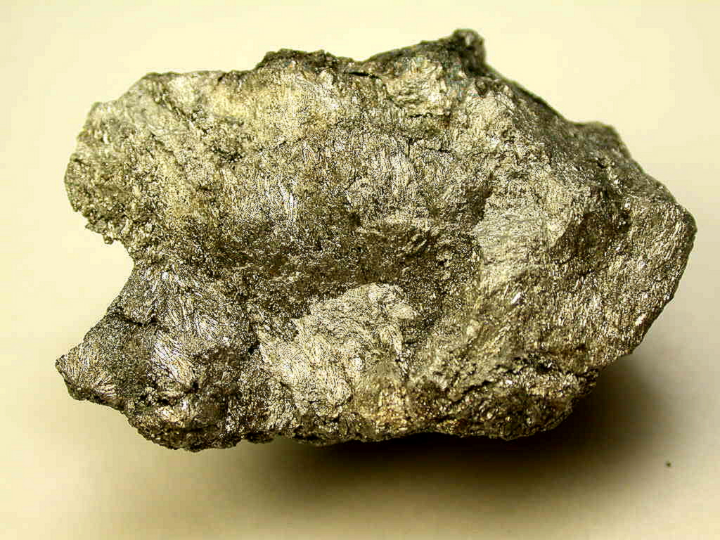 Pararammelsbergite Locality: Keeley-Frontier Mine (Canadian Keeley; Frontier Mine; Keeley Mine), South Lorrain Township, Timiskaming District, Cobalt-Gowganda region, Ontario, Canada Original description: A 3.9 by 2.9 cms mass of silvery interlocking subhedral crystals with some tiny orthorhombic crystals in some small cavities. JSS specimen and photo.